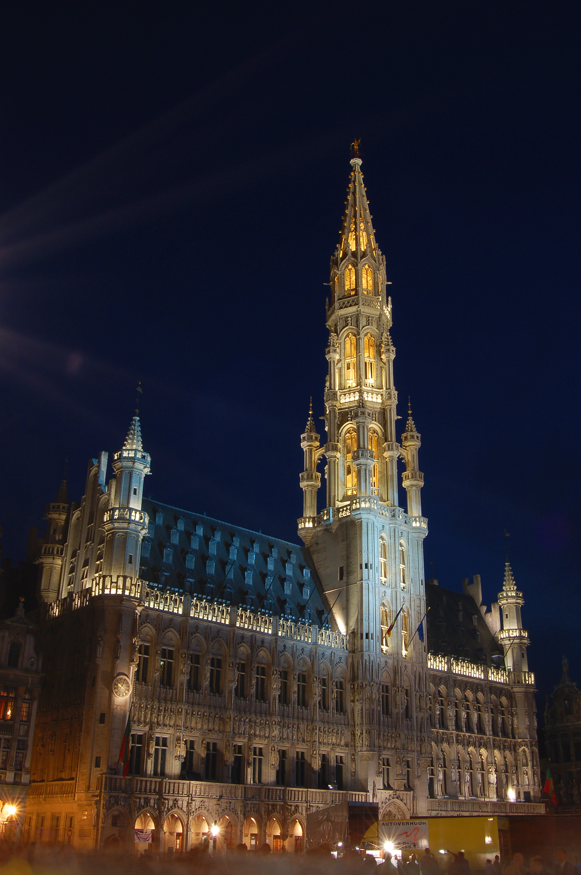 The Brussels Town Hall by night.